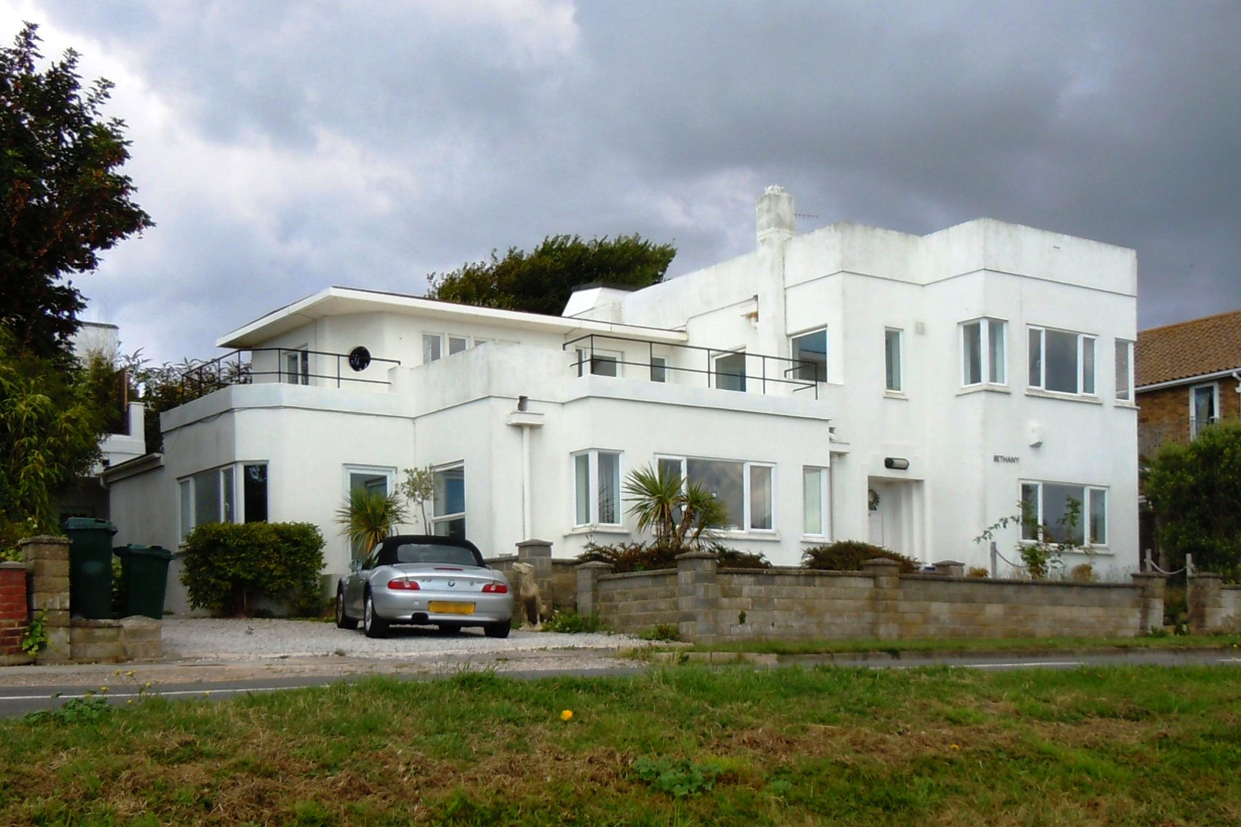 1934 Cubist house, Arundel Drive West, Saltdean, City of Brighton and Hove, England. One of the first Cubist buildings in England.